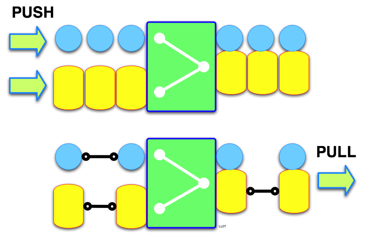 Pull push principle.